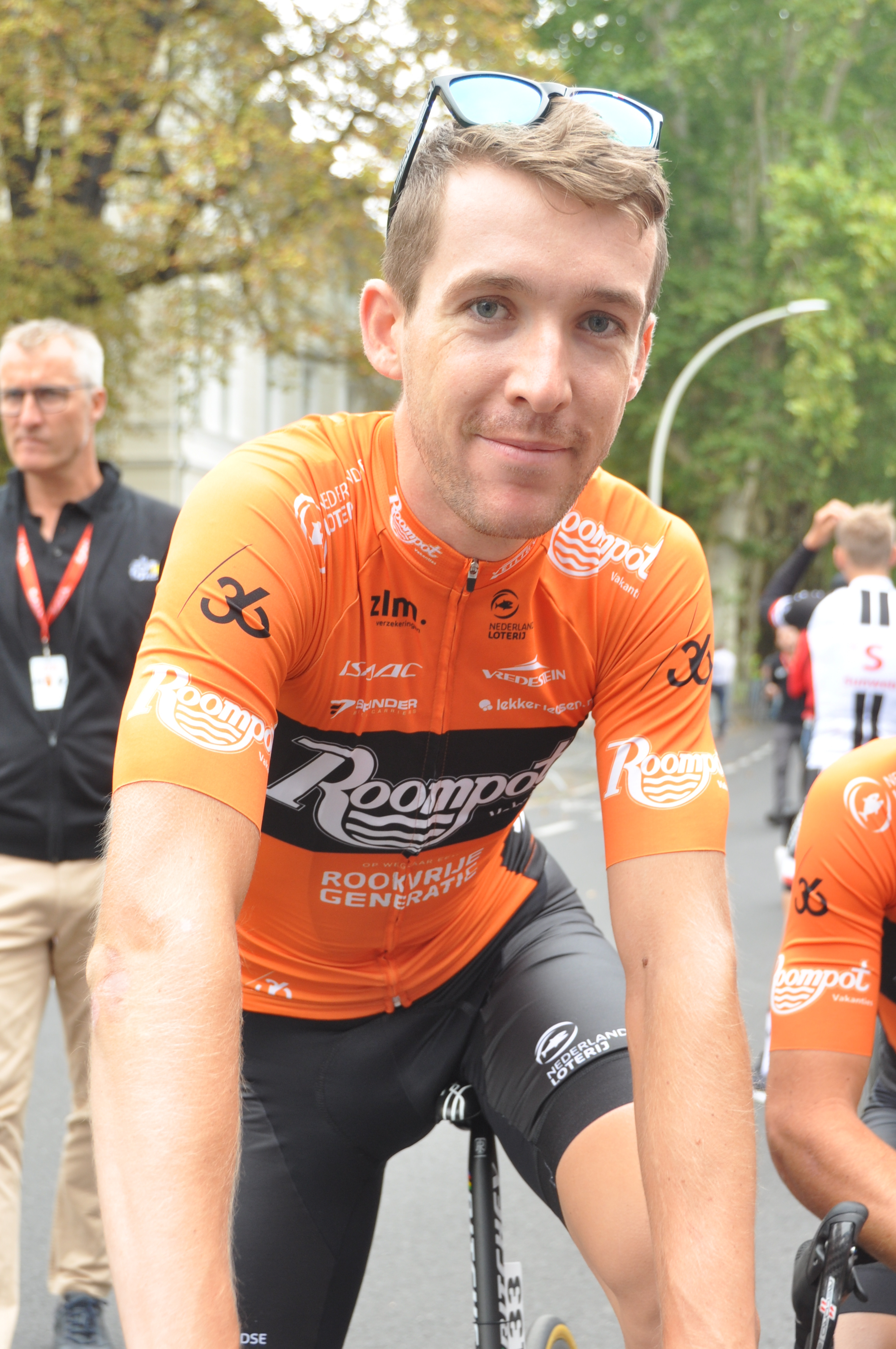 Depicted person: Robbert de Greef – Dutch cyclist